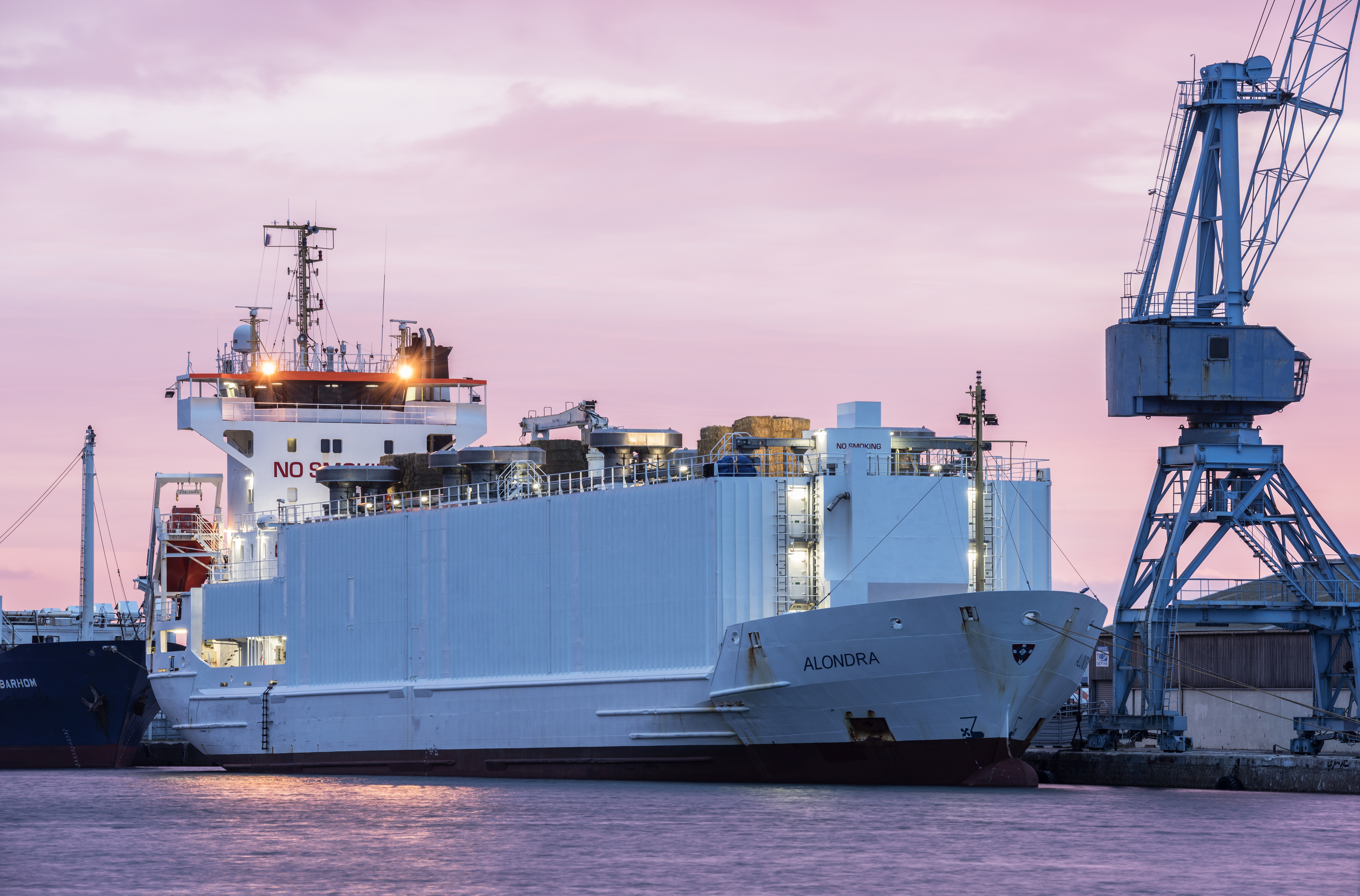 Alondra (ship, 1995) - Sète, Hérault, France